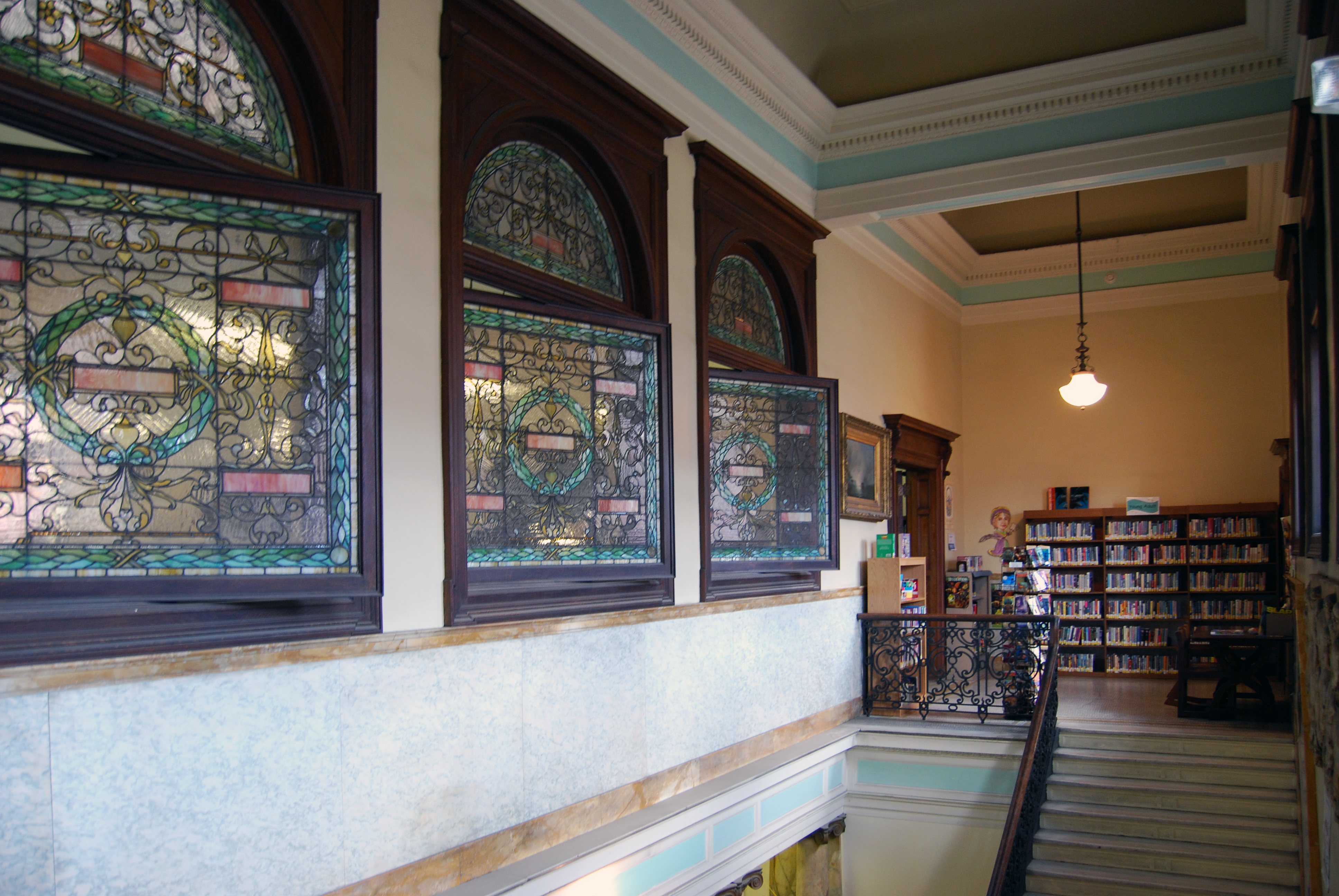 Interior of the Troy Public Library in Troy, New York, United States, which is on the National Register of Historic Places